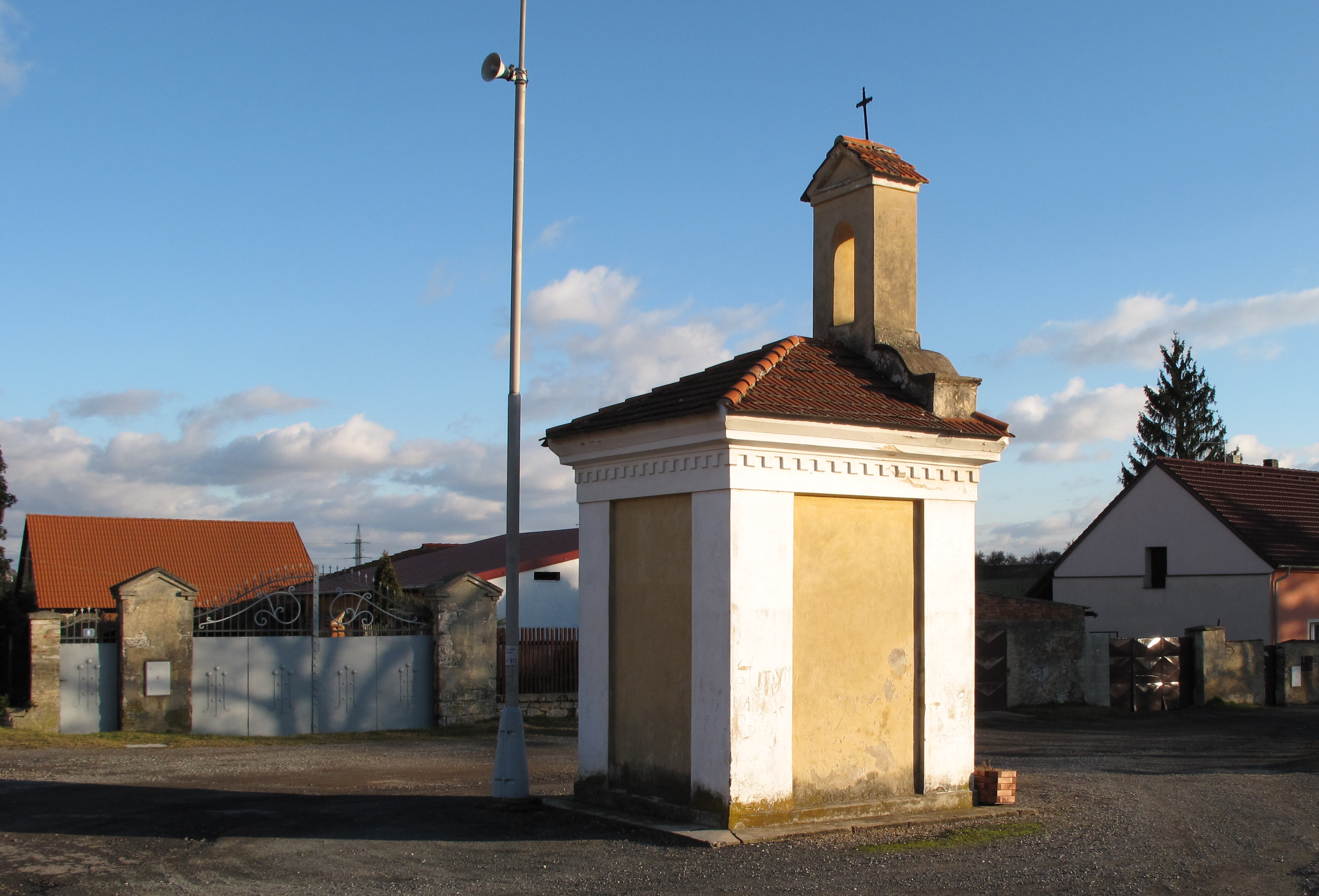 Chapel at village square in Byseň village, Kladno District, Czech Republic.